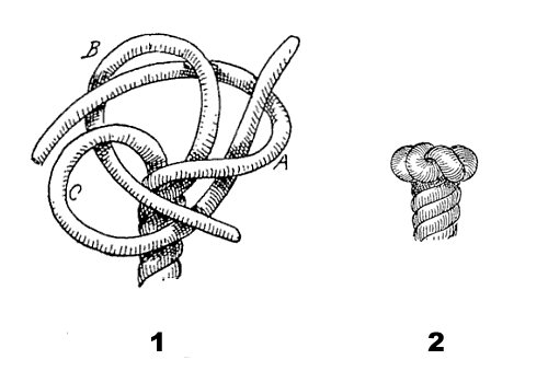 Making of (1) and completed (2) wall knot.